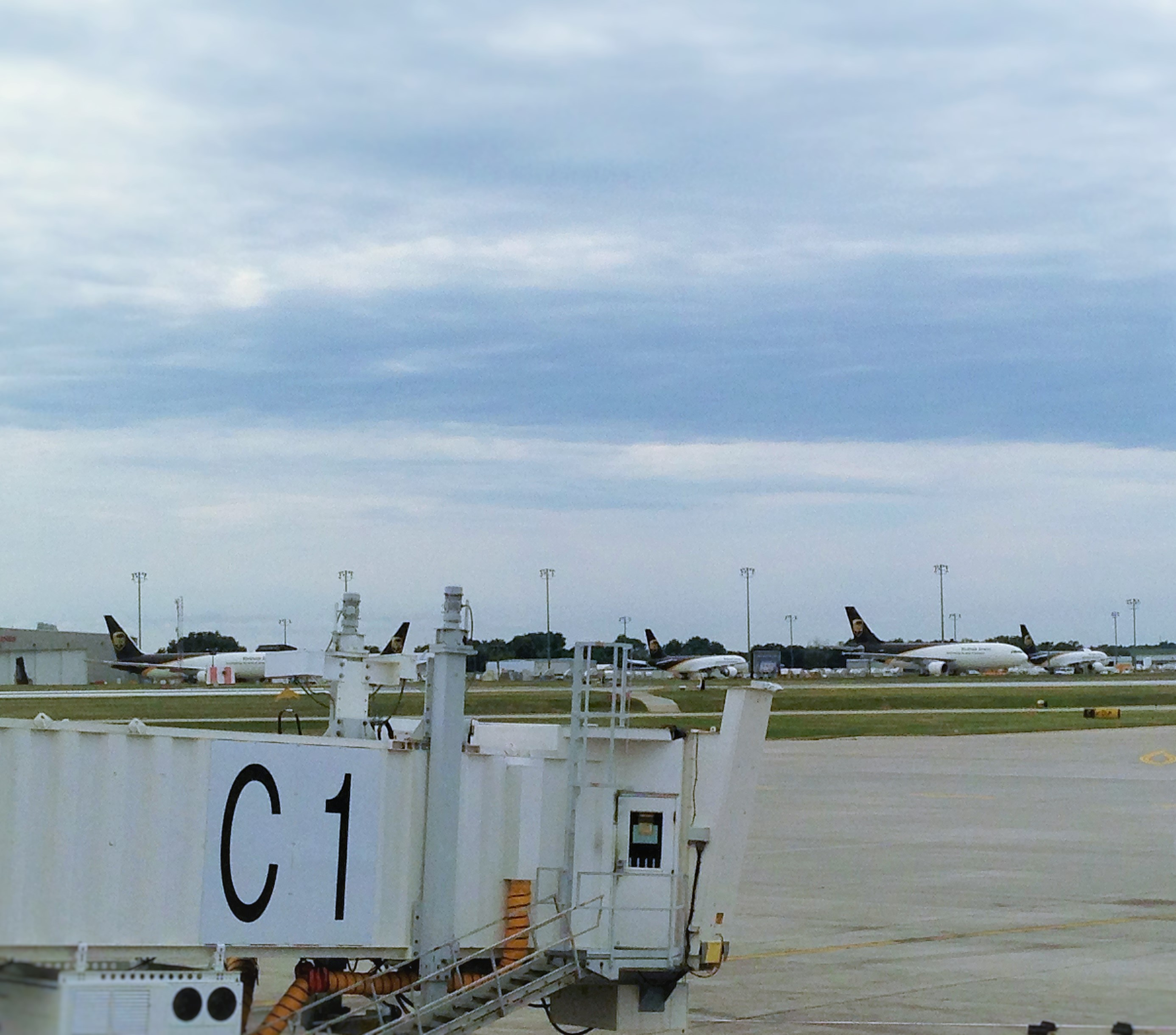 DSM Cargo Apron